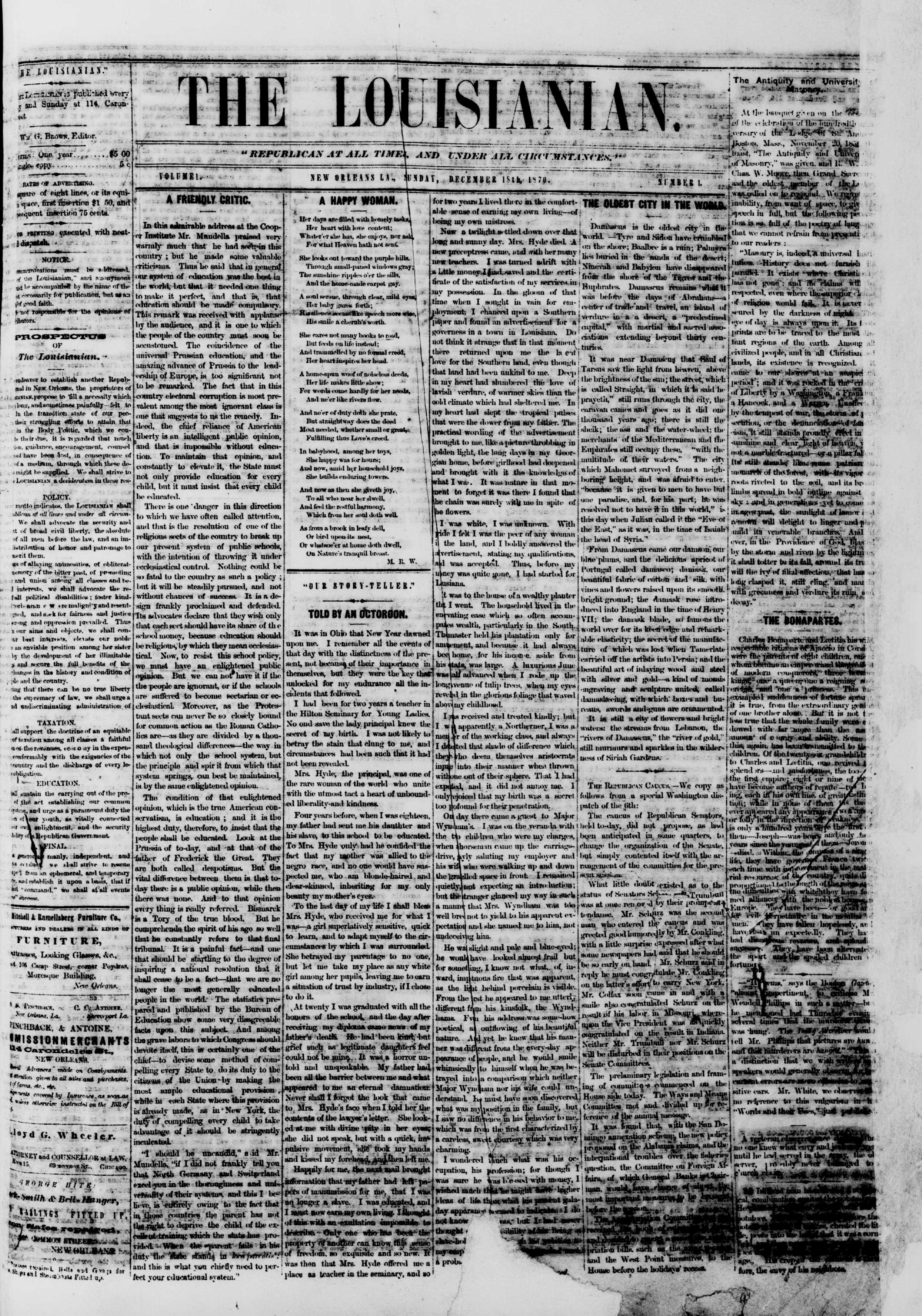 Front page of the inaugural issue of The Louisianian, an early African American newspaper in New Orleans, dated December 18, 1870. At the time the New Orleans Tribune had just closed, and The Louisianian was the state's only African American newspaper.